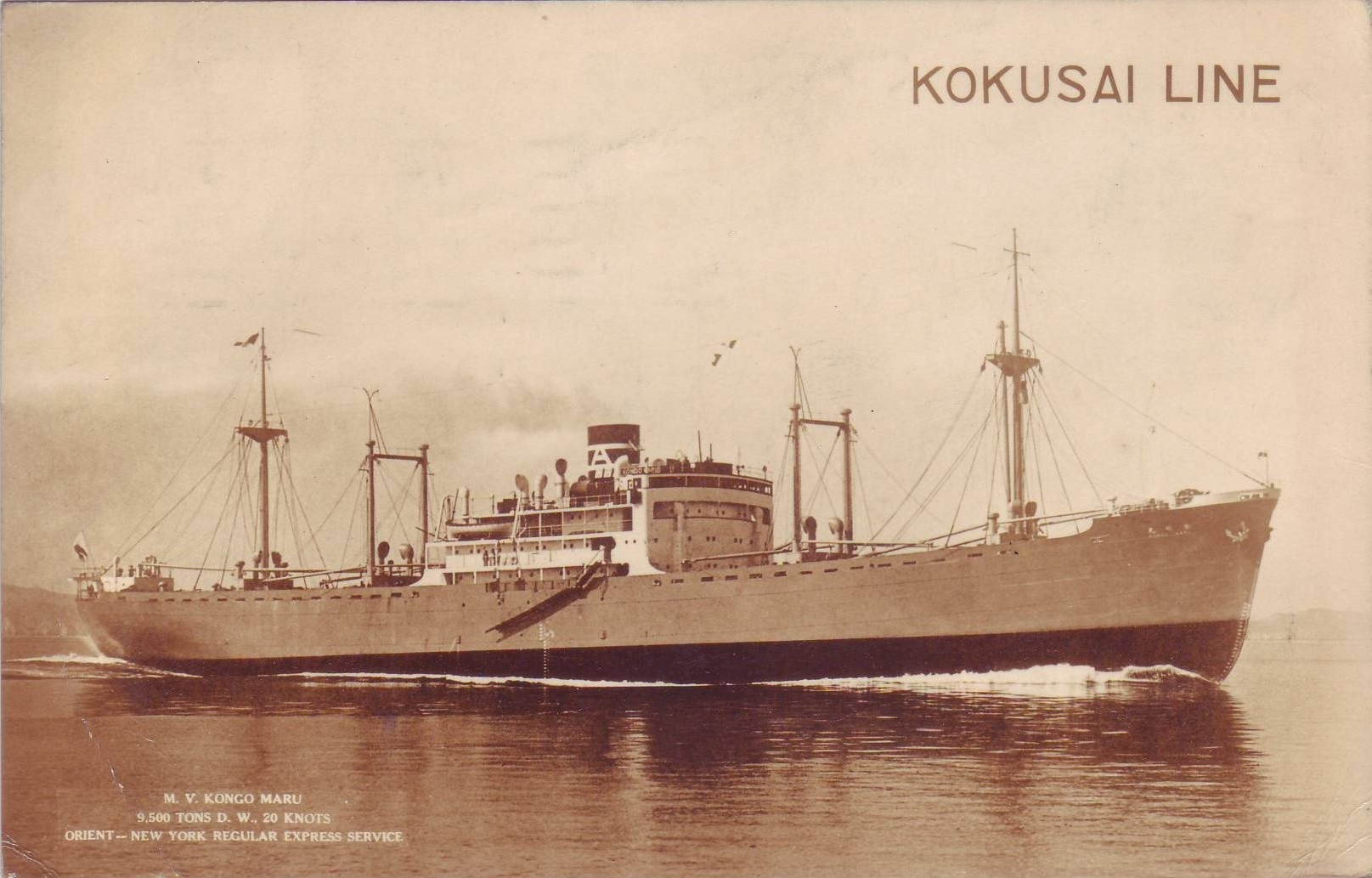 Kokusai Line "Kongō Maru", Postcard.